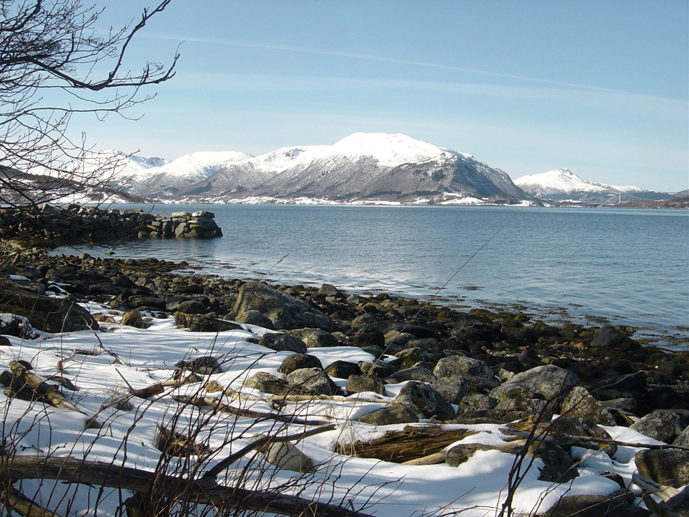 View from the east toward Gjemnes and the Batnfjorden; at extreme right the Gjemnessund Bridge